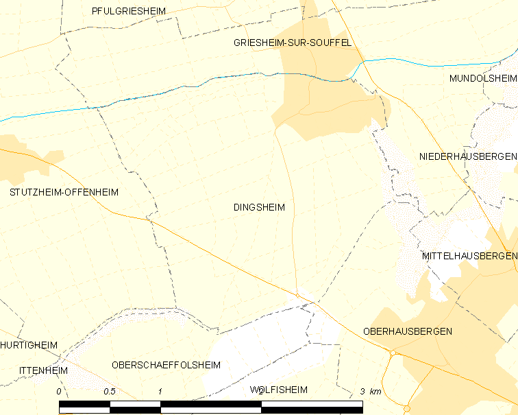 Map of French municipality